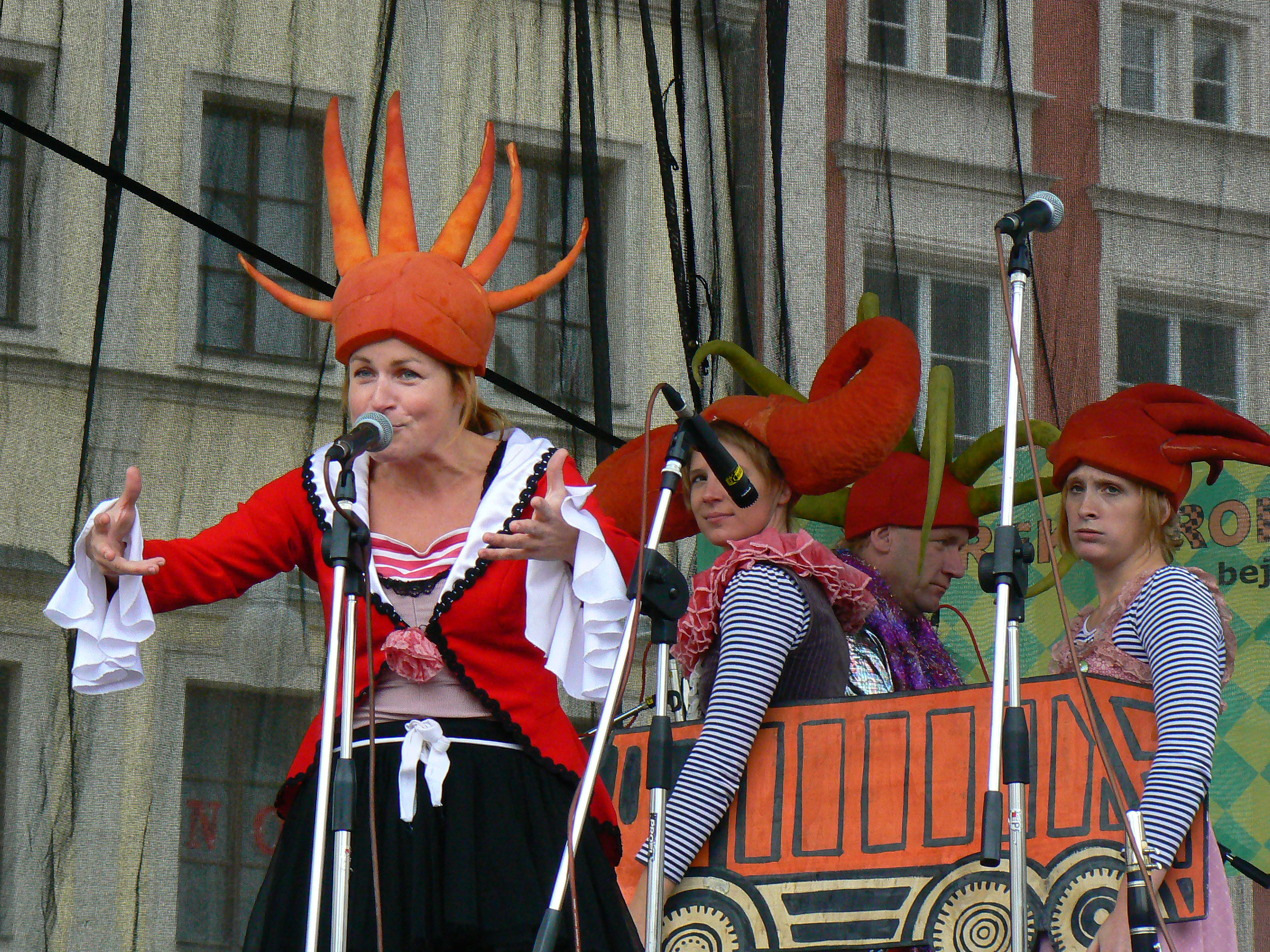 Denisa Posekaná from České Budějovice band Kašpárek v rohlíku